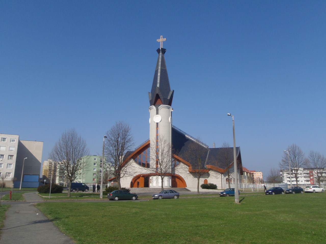 Temple of Maria Szombathely-Olad, Hungary